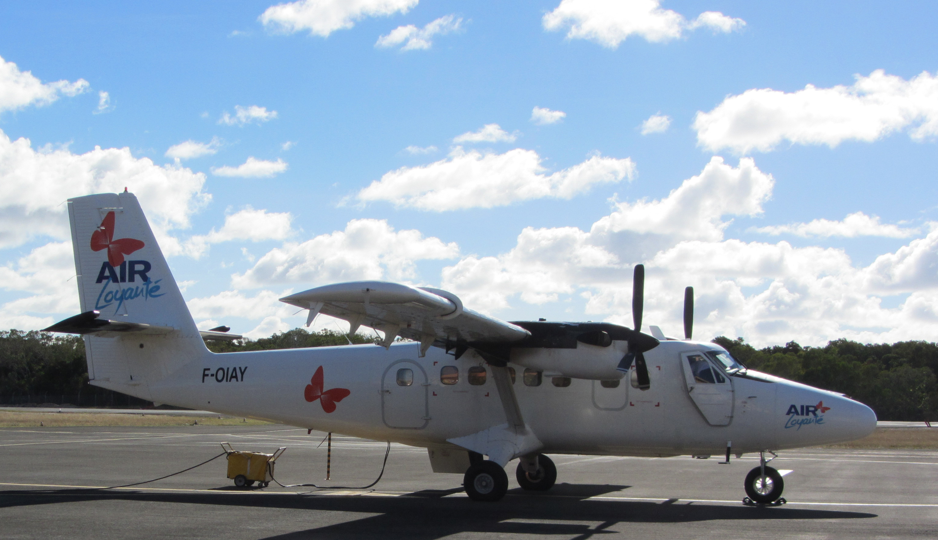 Air Loyauté DHC6 Twin Otter at gate at Ouvea Airport (UVE) in New Caledonia.